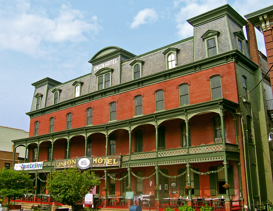 Union Hotel in Flemington, New Jersey, USA. The building in the Victorian style was erected in 1887. During the trial against the "Lindbergh kidnapper" in 1935, it served as press center for the world media.